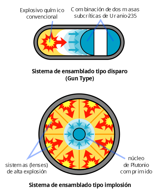 Schematic representation of the two methods with which to assemble a fission bomb (see nuclear weapon design)., in Spanish